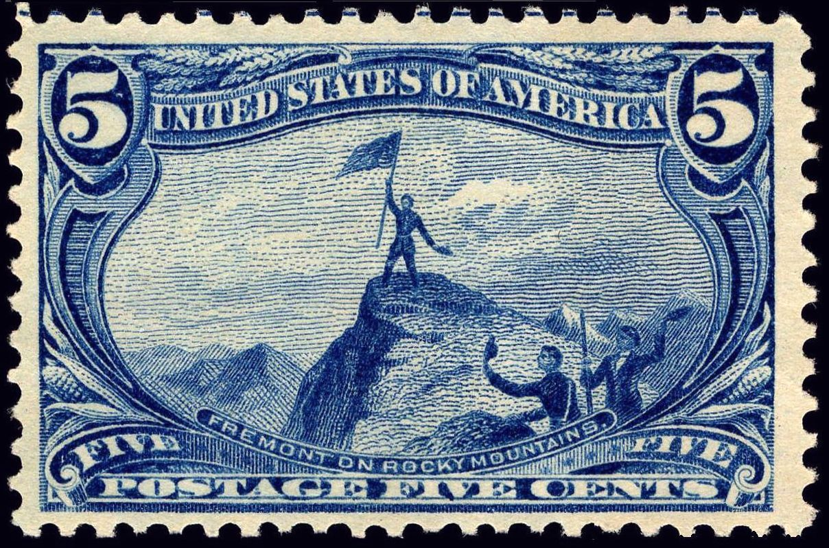 1898 United States 5¢ stamp, Trans-Mississippi issue.